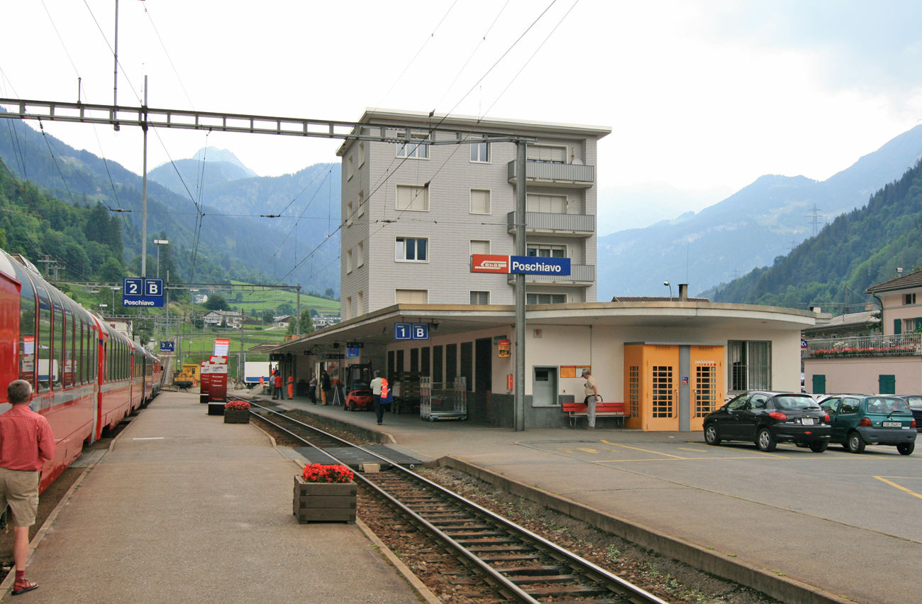 Poschiavo train station, Graubünden, Switzerland.